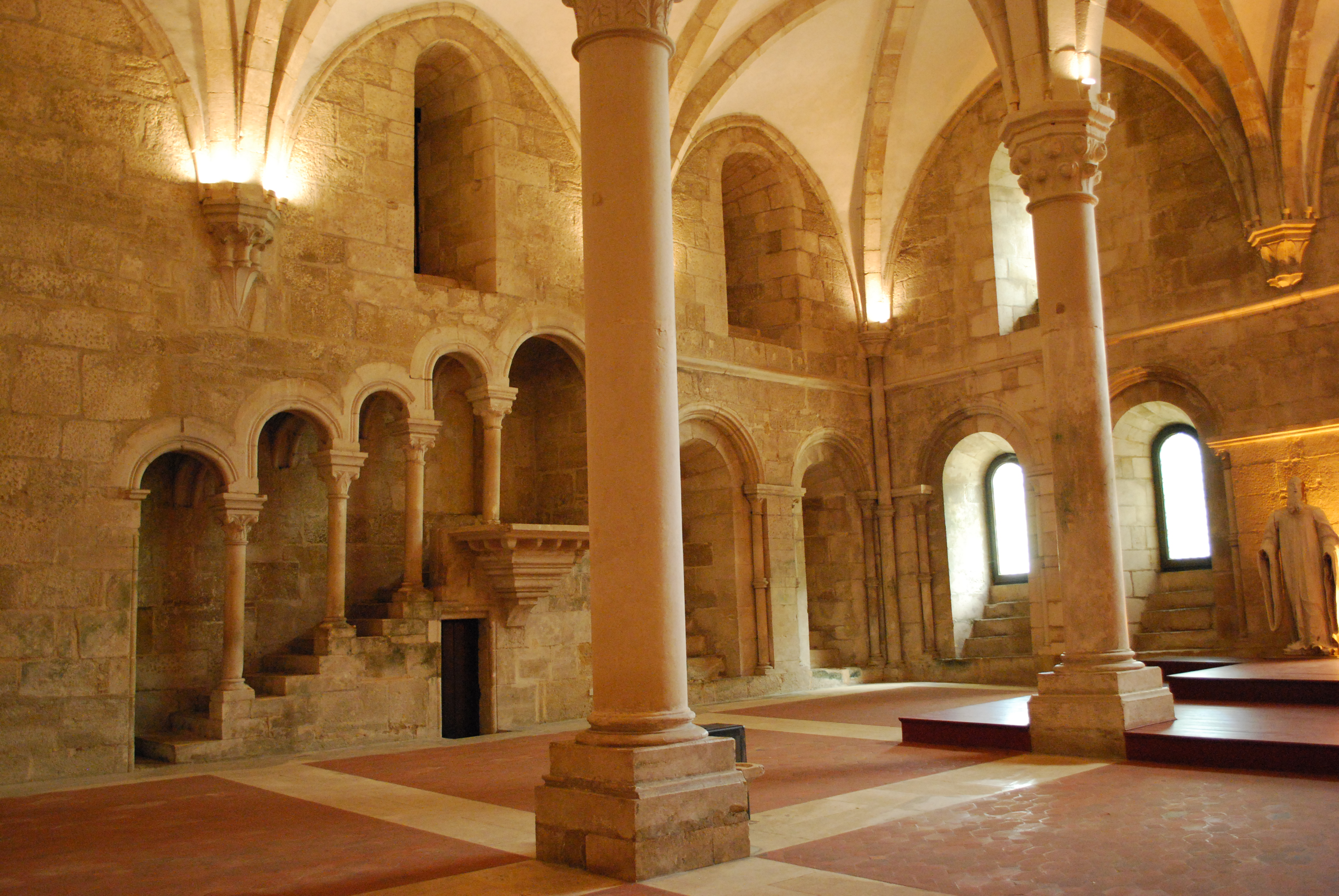 This file was uploaded for Wiki Loves Monuments in Portugal with the unique identifier 70185.